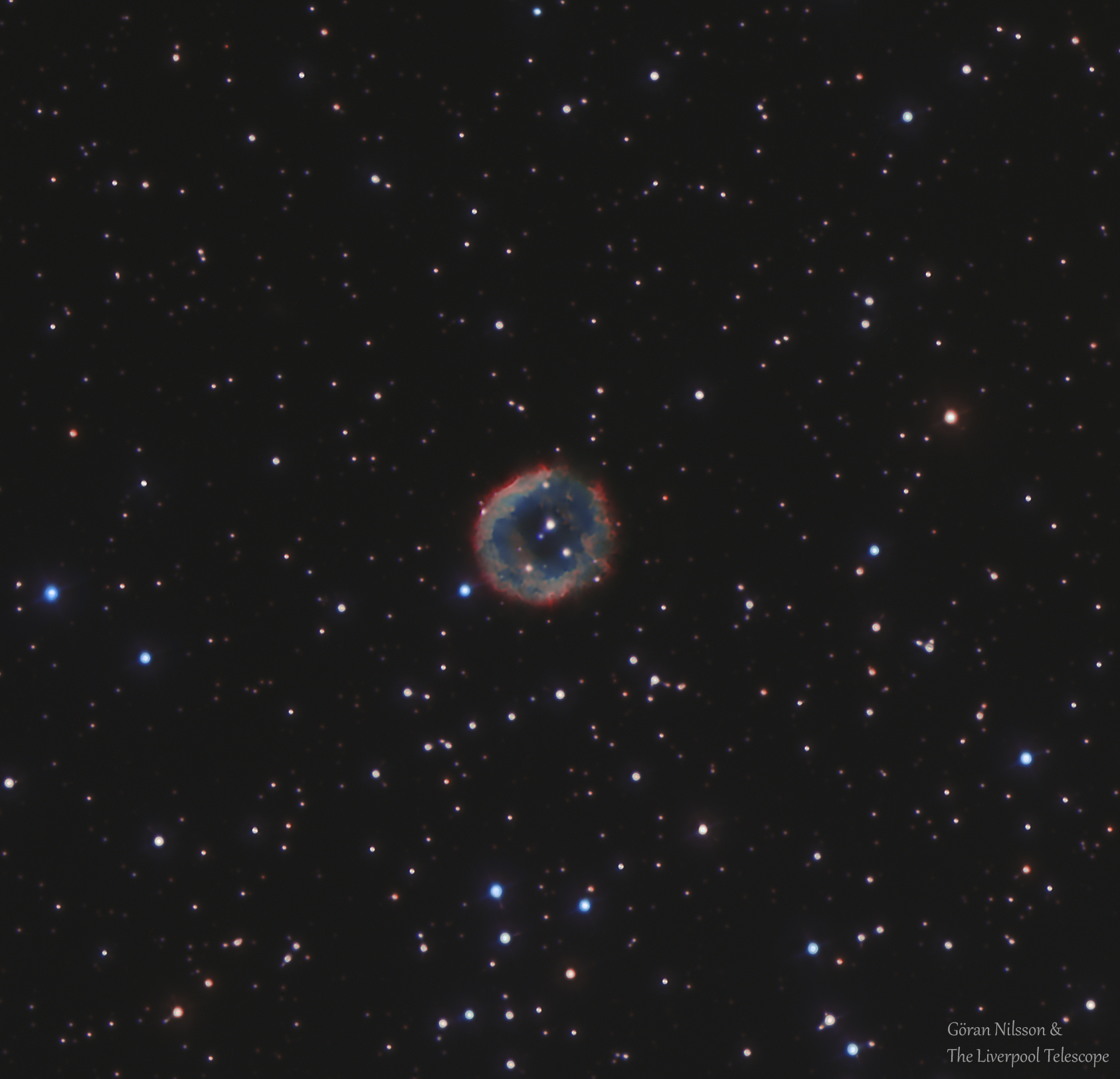 HaRGB image of the planetary nebula NGC 5746. Data from the Liverpool Telescope, a 2 m RC telescope on La Palma, processed by Göran Nilsson. 31 x 90s exposures totaling 0.8 hours